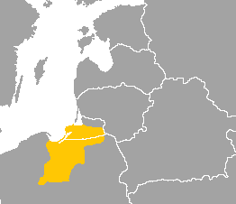 Old Prussian Language